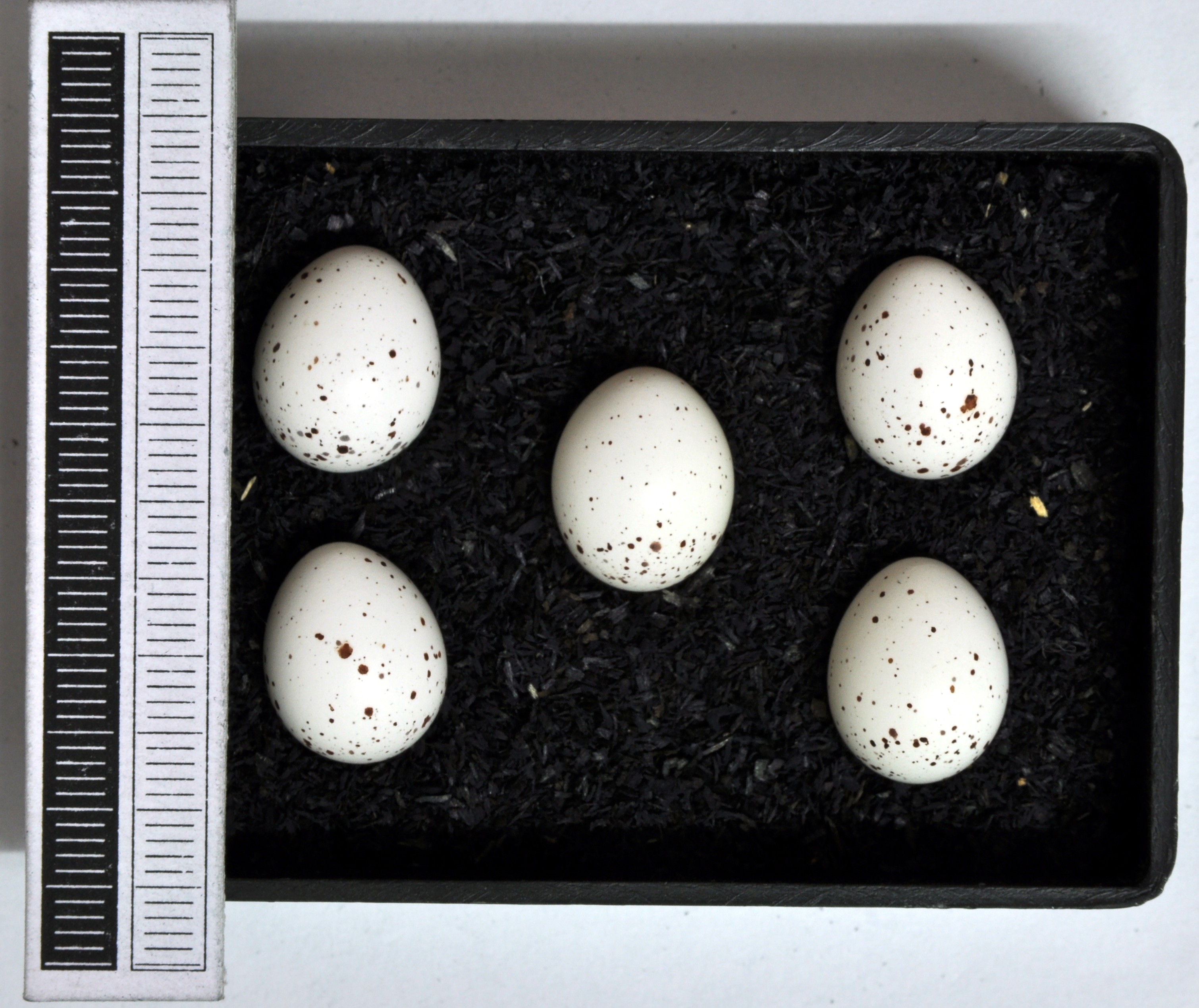 Common chiffchaff Phylloscopus collybita , egg, Coll. Museum Wiesbaden, Origin: Moosburg, Bavaria, 04.05.1974, leg. W. Abelmann